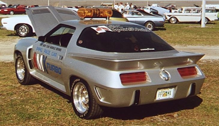 1980 American Motors Corporation (AMC) AMX Turbo Pace car built for the 1981 PPG IndyCar World Series - rear view. Photograph taken at the Datytona, Florida International racetrack during an AMC show.